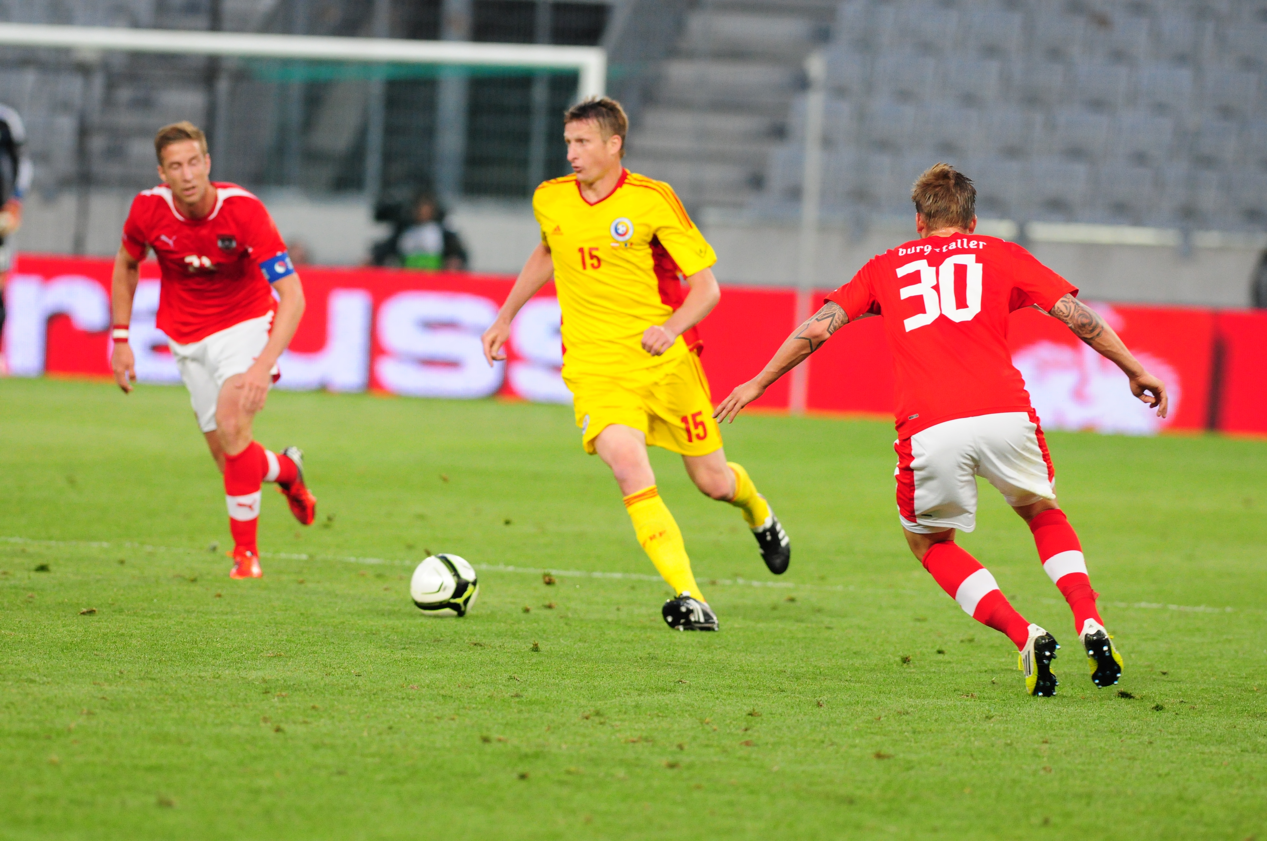 Exhibition game Austria vs. Romania at 5st. June 2012